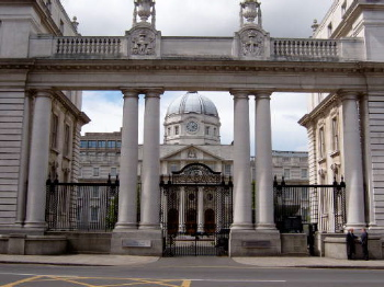 uploading image of Irish Govt buildings. My image. No c/r. Immagine:Gbuildingssmall.jpg Category:Images of Ireland